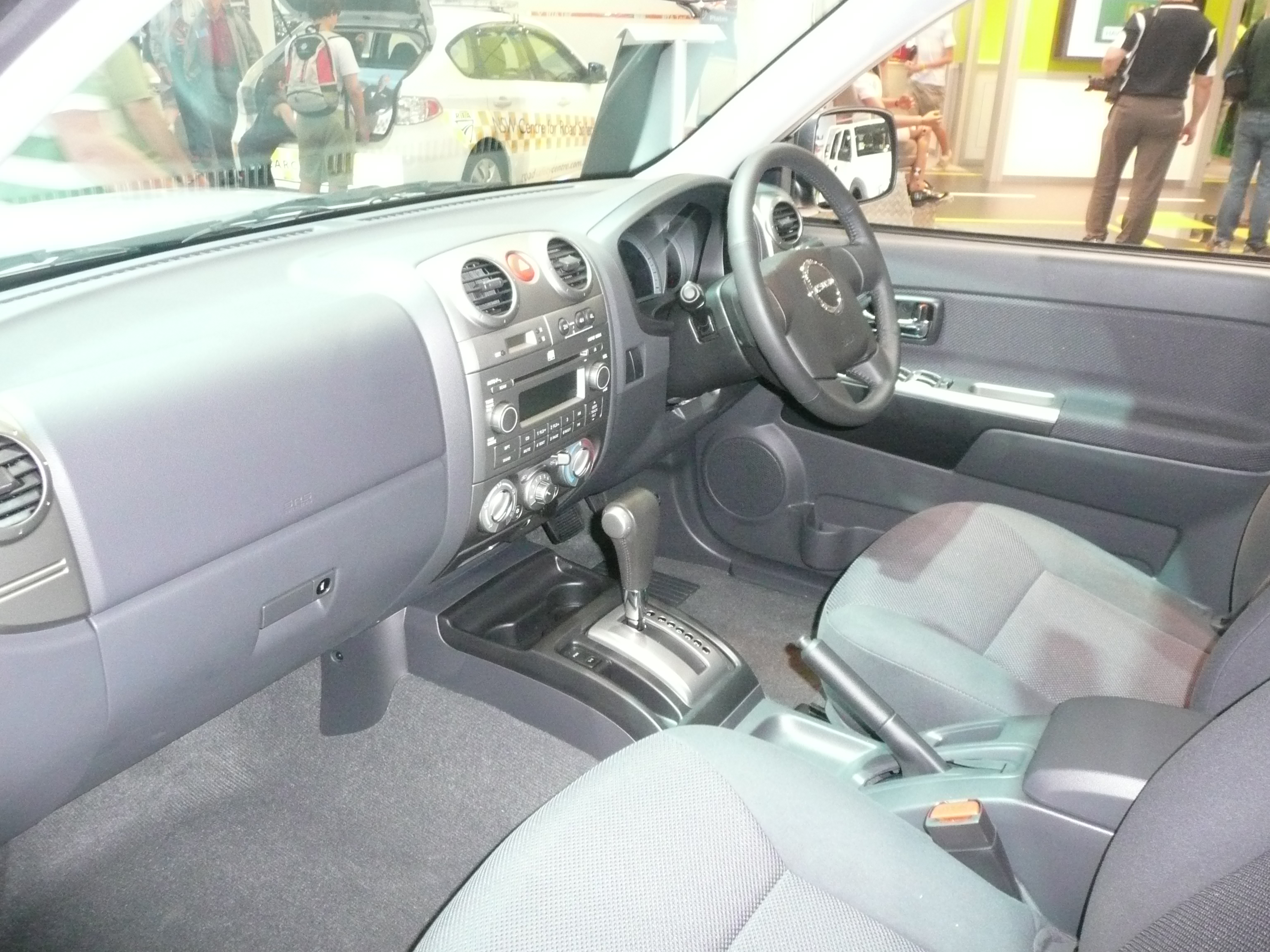 2008 Isuzu D-Max LS-U 4-door utility. Photographed at the 2008 Australian International Motor Show, Sydney, New South Wales, Australia.